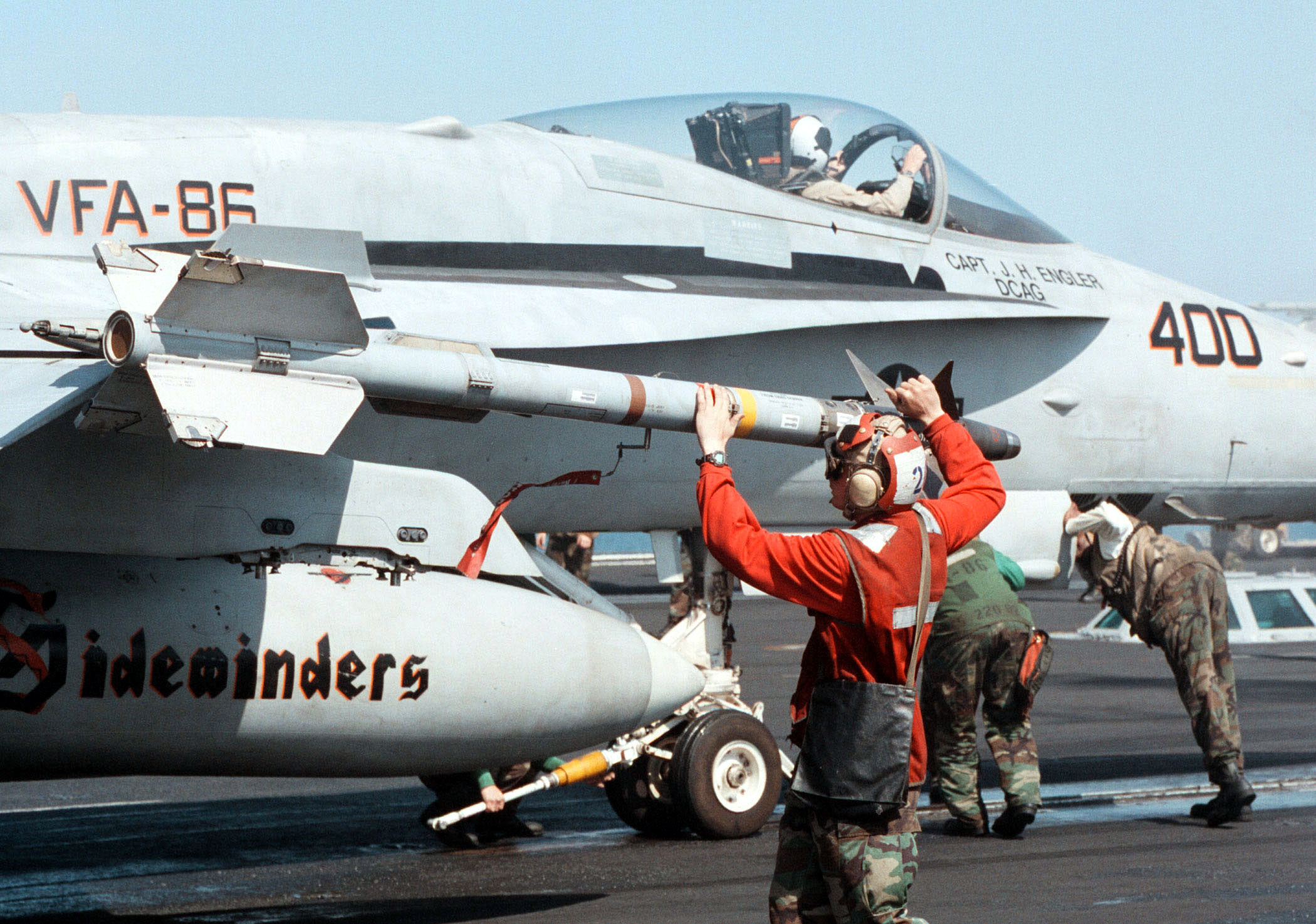 U.S. Marine Corps Lance Cpl. Leander Pickens arms an AIM-9 Sidewinder missile on a F/A-18C Hornet as the aircraft is readied for launch from the aircraft carrier USS George Washington (CVN 73) as the ship steams in the Persian Gulf on Feb. 20, 1998. The Washington battle group is operating in the Persian Gulf in support of Operation Southern Watch which is the U.S. and coalition enforcement of the no-fly-zone over Southern Iraq. Pickens is from Greenville, Ala. The Hornet is from Strike Fighter Squadron 86, Naval Air Station Cecil Field, Fla. DoD photo by Petty Officer 3rd Class Brian Fleske, U.S. Navy.